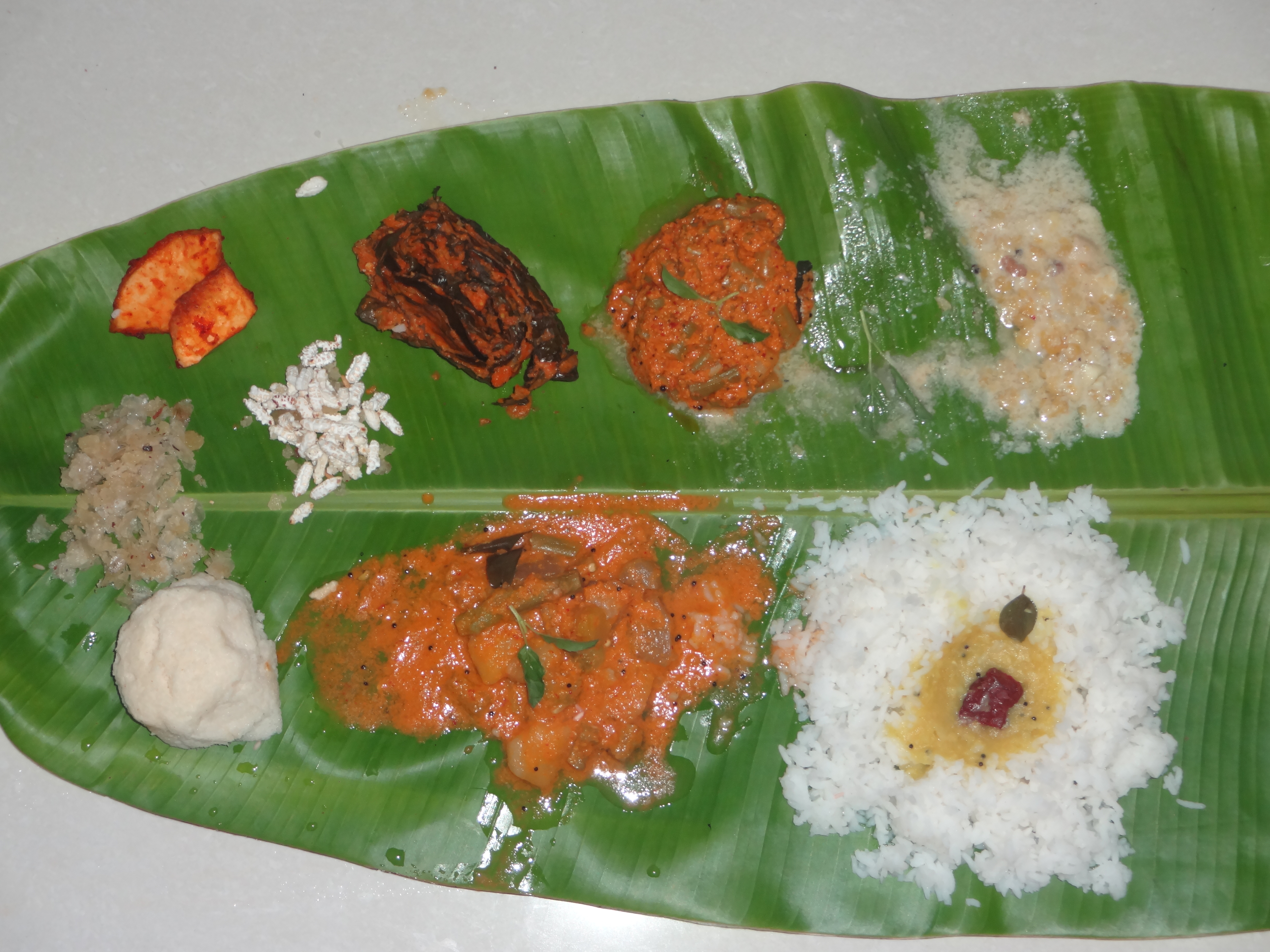 A traditional meal by Konkani Brahmins prepared on the auspicious occasion of Ganesh Chaturthi The dish names from top-left corner in clockwise direction are-ಕನ್ನಡ: ಪೊಡಿ, ಅರಳು ಪಂಚಕಜ್ಜಾಯ, ಪತ್ರೊಡೆ, ಸುಕ್ಕ, ಪಯಸಂ, ಅನ್ನ, ದಾಳಿತೋವೆ, ಗಜಬಜೆ, ಖೊಟ್ಟೆ, ಅವಲಕ್ಕಿ ಪಂಚಕಜ್ಜಾಯ.